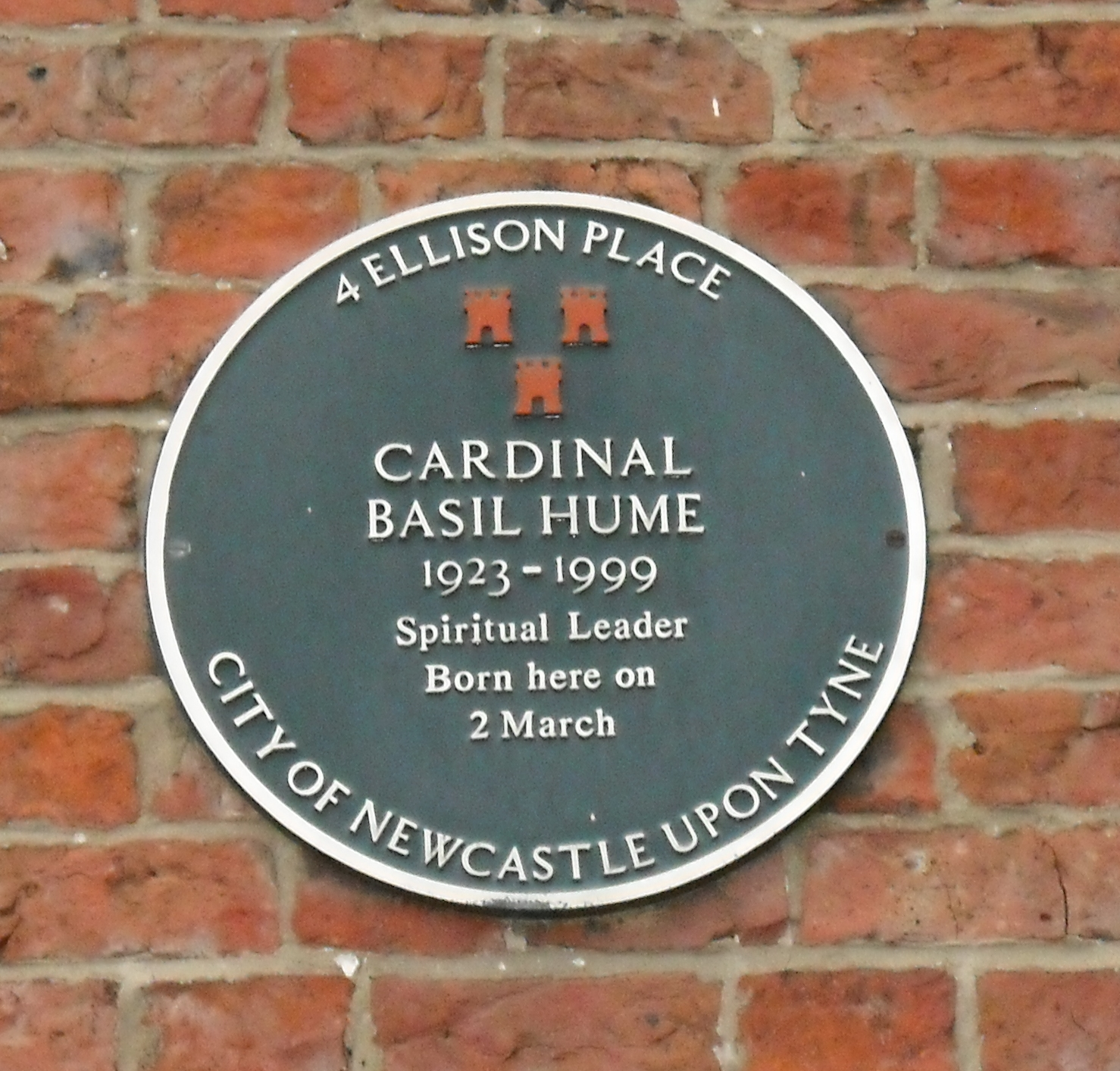 Commemorative plaque for Basil Hume at 4 Ellison Place, Newcastle upon Tune